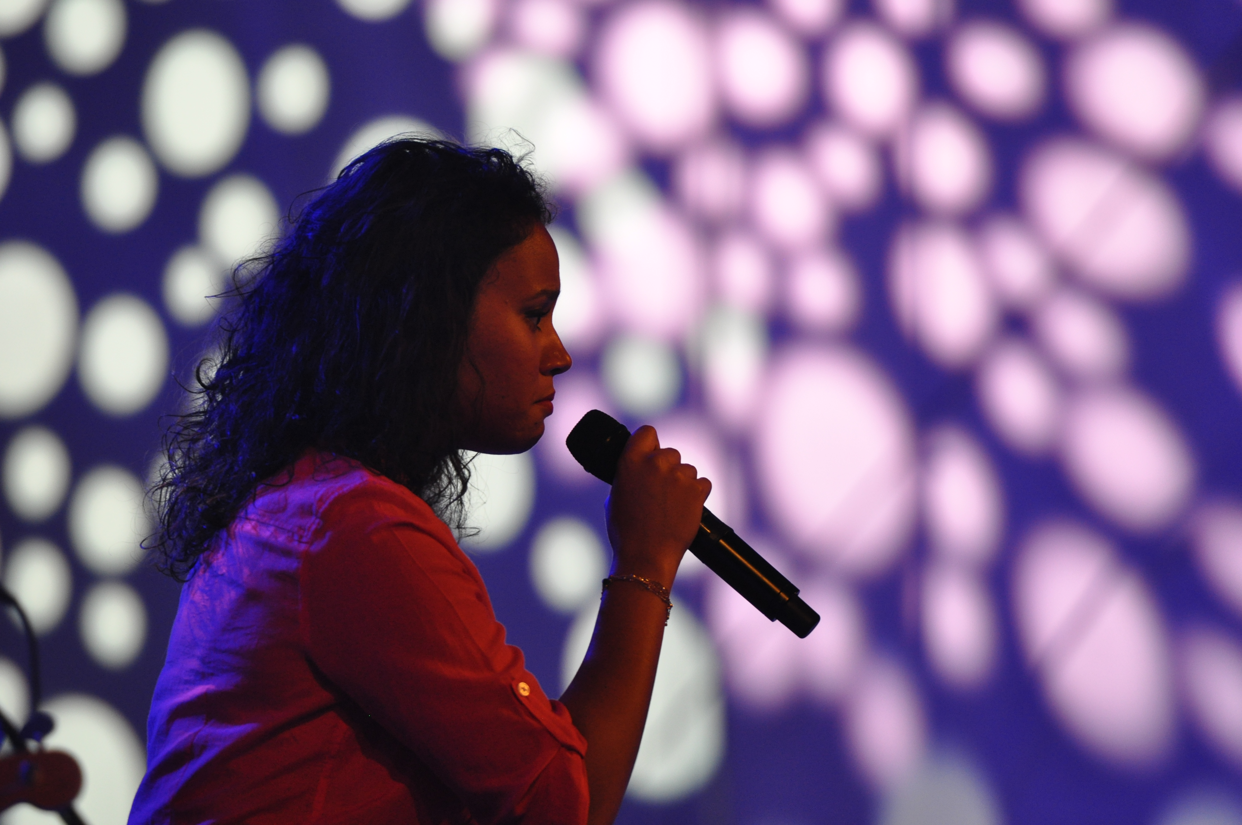 Mayra Andrade (CV), appearance at the 12th World Music Festival "Horizonte" 2014 at the fortress of Ehrenbreitstein, Koblenz (Germany)